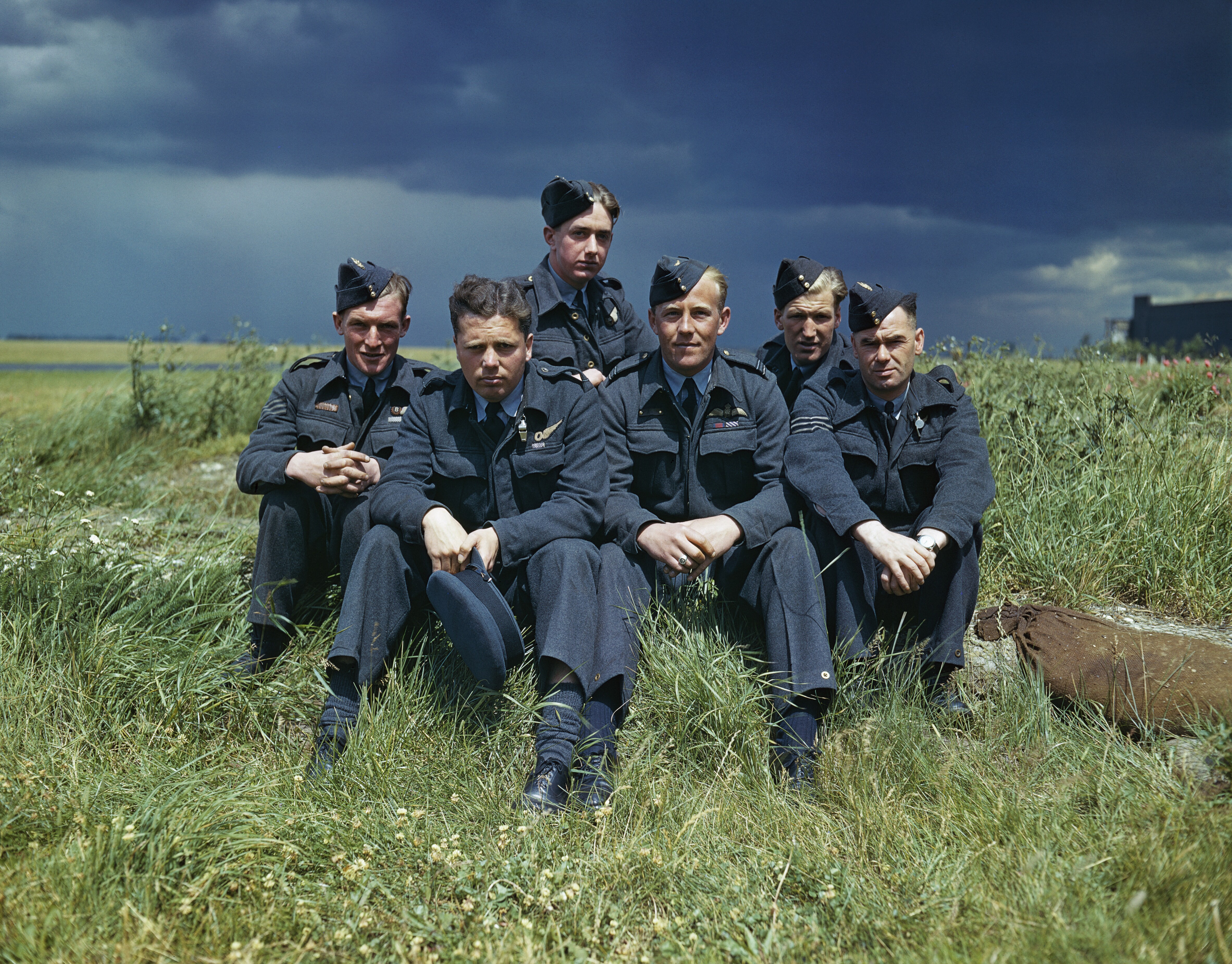 Flight Lieutenant Joe McCarthy (fourth from left) and his crew of No. 617 Squadron (The Dambusters) at RAF Scampton, 22 July 1943. The crew of Lancaster ED285/`AJ-T' sitting on the grass, posed under stormy clouds. Left to right: Sergeant G Johnson; Pilot Officer D A MacLean, navigator; Flight Lieutenant J C McCarthy, pilot; Sergeant L Eaton, gunner. In the rear are Sergeant R Batson, gunner; and Sergeant W G Ratcliffe, engineer.Missing from the photo is Flying Officer Dave Rodger, the rear gunner.